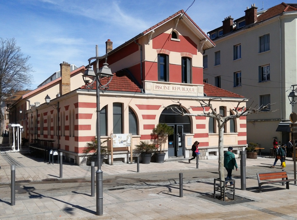 Picine Repubique, Gap (Hautes-Alpes)